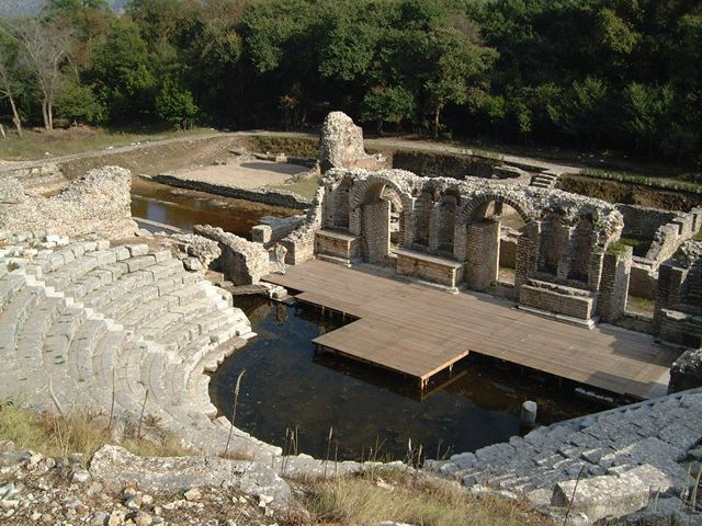 Butrint, Albania: Roman Theatre